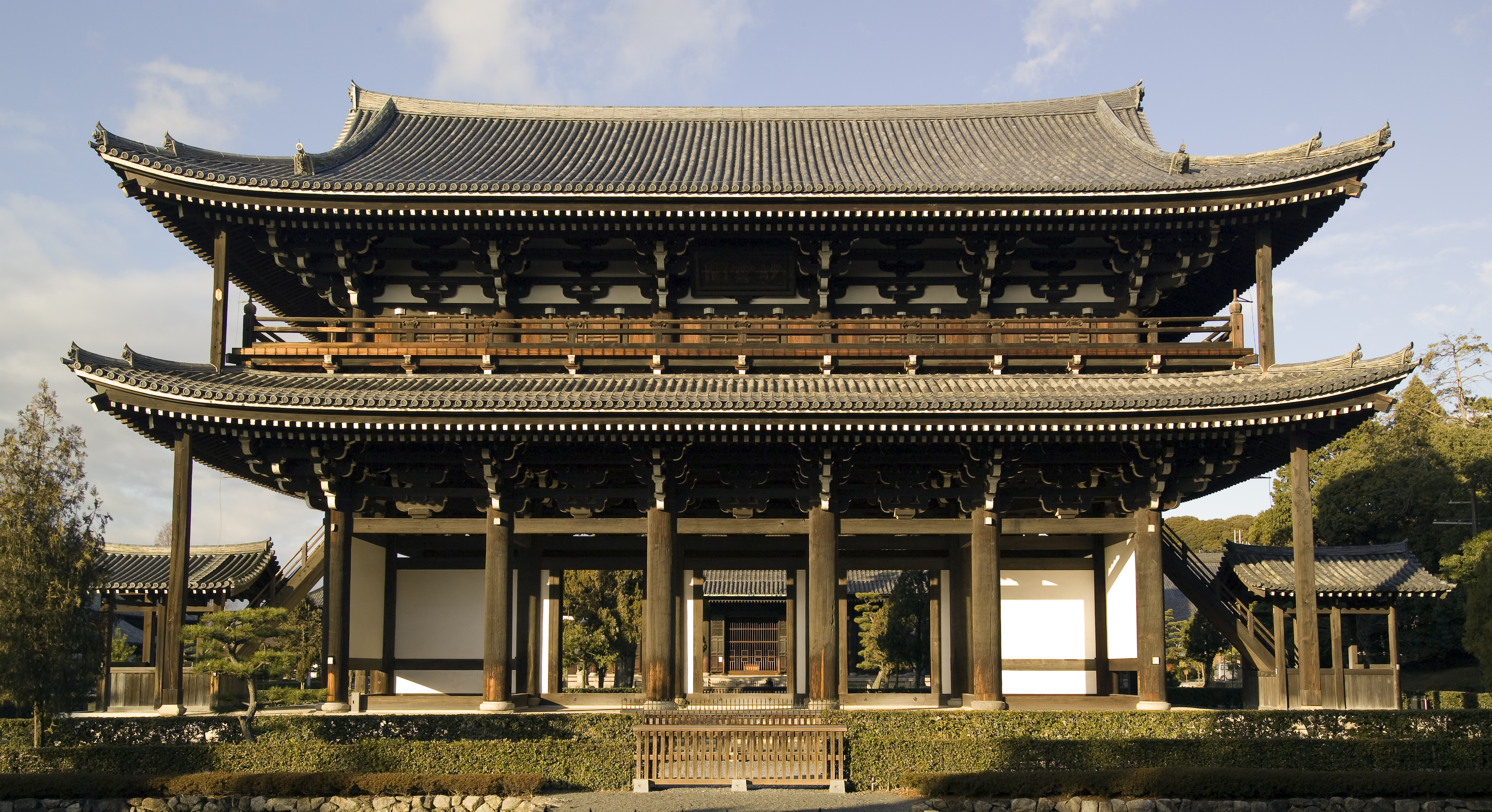 This photograph shows the Sanmon of Tōfuku-ji. The oldest Sanmon at any Zen temple in Japan, this five-bay, three-door, two-story gate is a National Treasure of Japan. 東福寺の三門。五間三戸二重門。国宝。